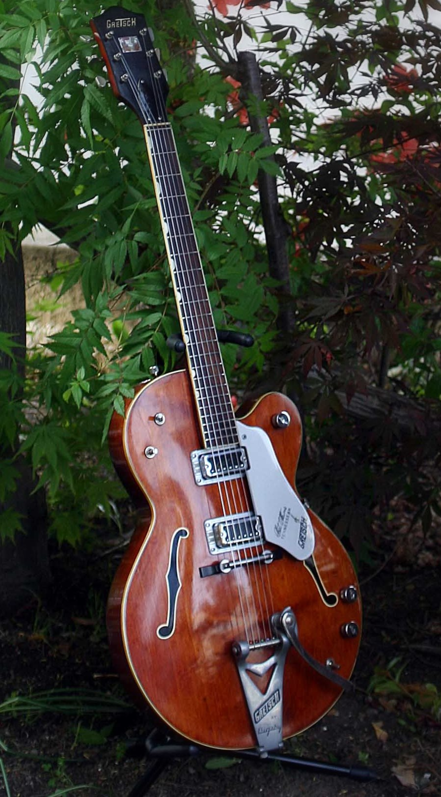 Gretsch 6119 Tennessean 1966 6119 Chet Atkins Tennessean hollowbody.